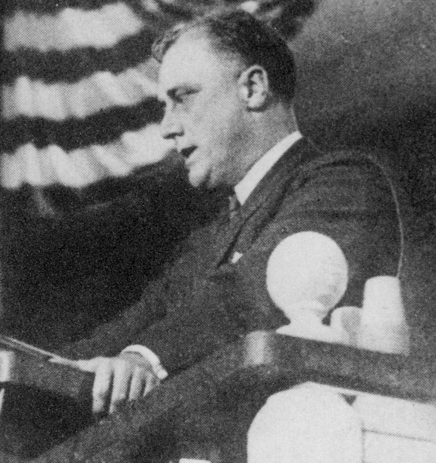 FDR delivers the nominating speech for Alfred E. Smith at the Democratic Convention at Madison Square Garden, New York, NY. June 26, 1924. This speech is often considered FDR's first major gesture of re-entry into national politics after recovering from the onset of polio.